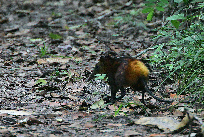 A poor image of an incredible and bizarre creature. This is the Golden-rumped Sengi, a highly endangered mammal confined to a single forest in coastal Kenya. This strange beast is related to elephants, manatees and hyrax belonging to a group of African-derived mammals called the Afrotheres. I had never heard of Sengis until I took a birdwatching trip into the weird and wonderful Arabuko-Sokoke forest in coastal Kenya. The story of this experience is here: See some video footage of this mammal here